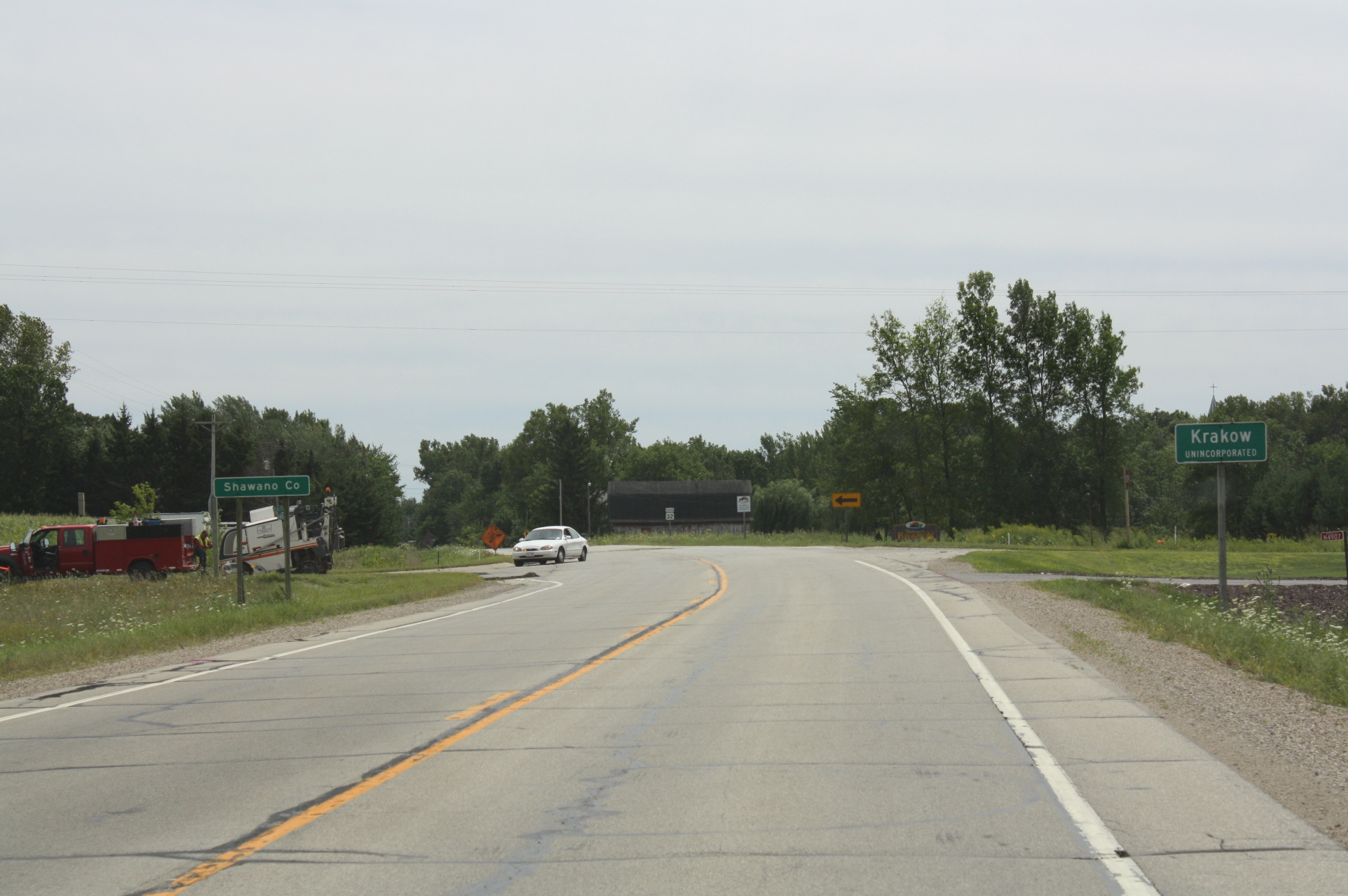 Looking south at the entrance sign for Krakow, Wisconsin in Shawano County along Wisconsin Highway 32.